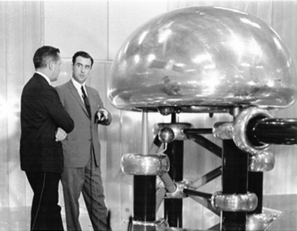 The top of the Cockcroft-Walton generator that provides the initial acceleration for particles in the Zero Gradient Synchrotron at the US Argonne National Laboratory in Chicago, Illinois, examined by Albert Crewe (right), Argonne director from 1961 to 1967. The Cockcroft-Walton is a circuit consisting of capacitors and diodes that multiplies a lower AC voltage to produce a high DC voltage at the top shown which is used to accelerate the particles. The shape of the high voltage terminals must be smooth with large diameter curves to prevent corona discharge, an ionization of the air that can cause the charge to leak off. Read more at Photo courtesy Argonne National Laboratory